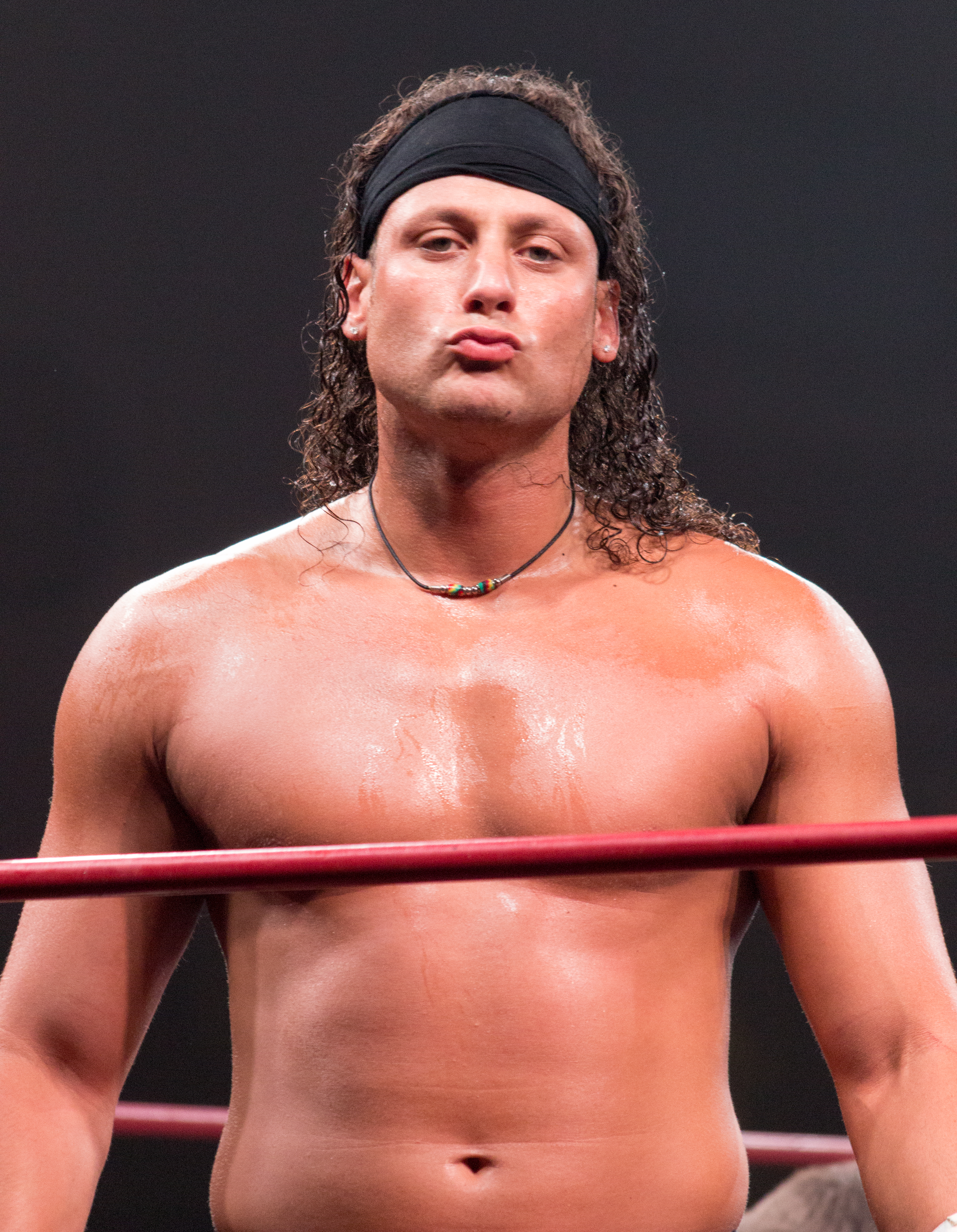 Independent wrestler Matt Taven at House of Hardcore 9